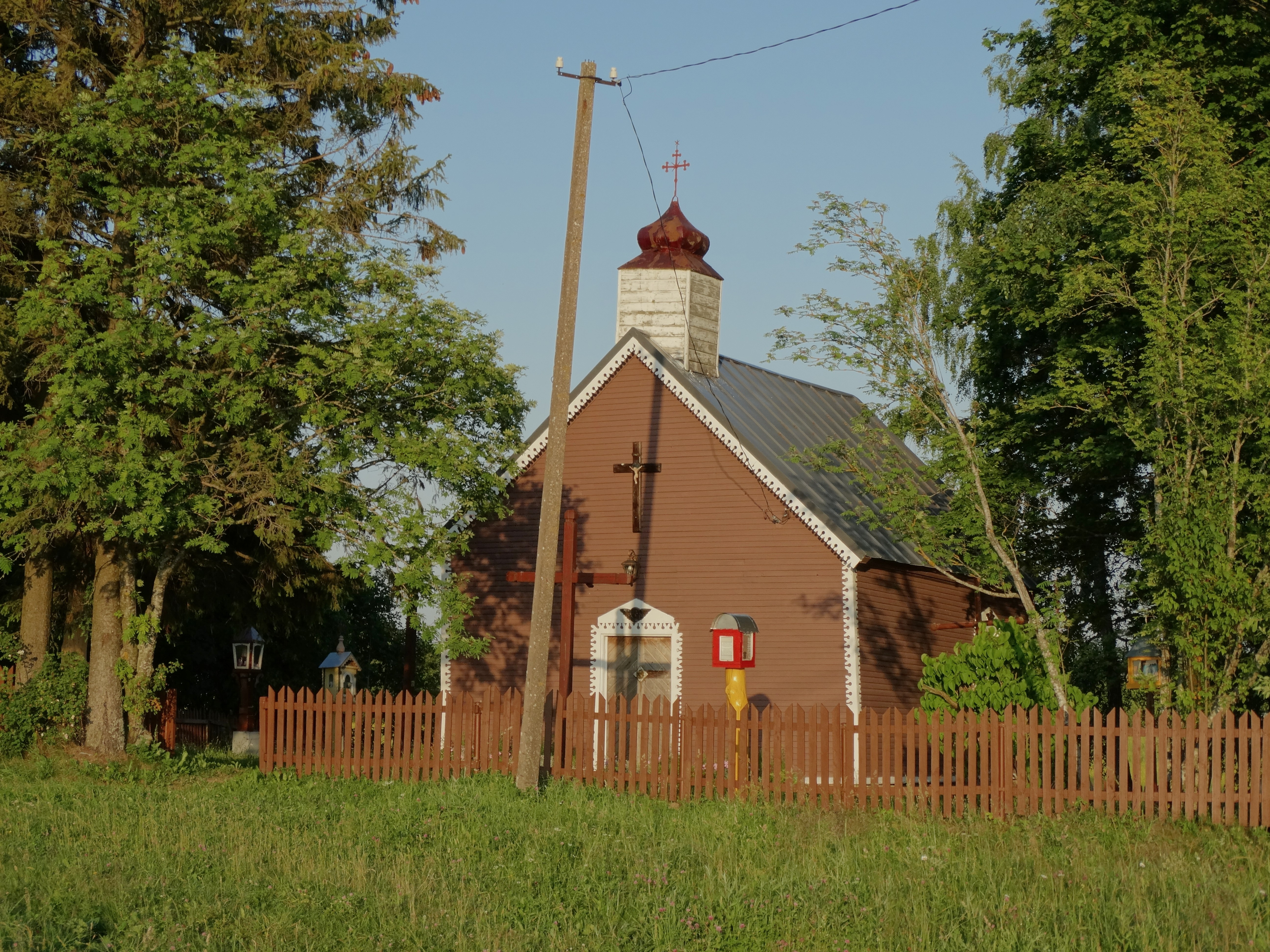 Chapel, Stulpinai, Telšiai District, Lithuania